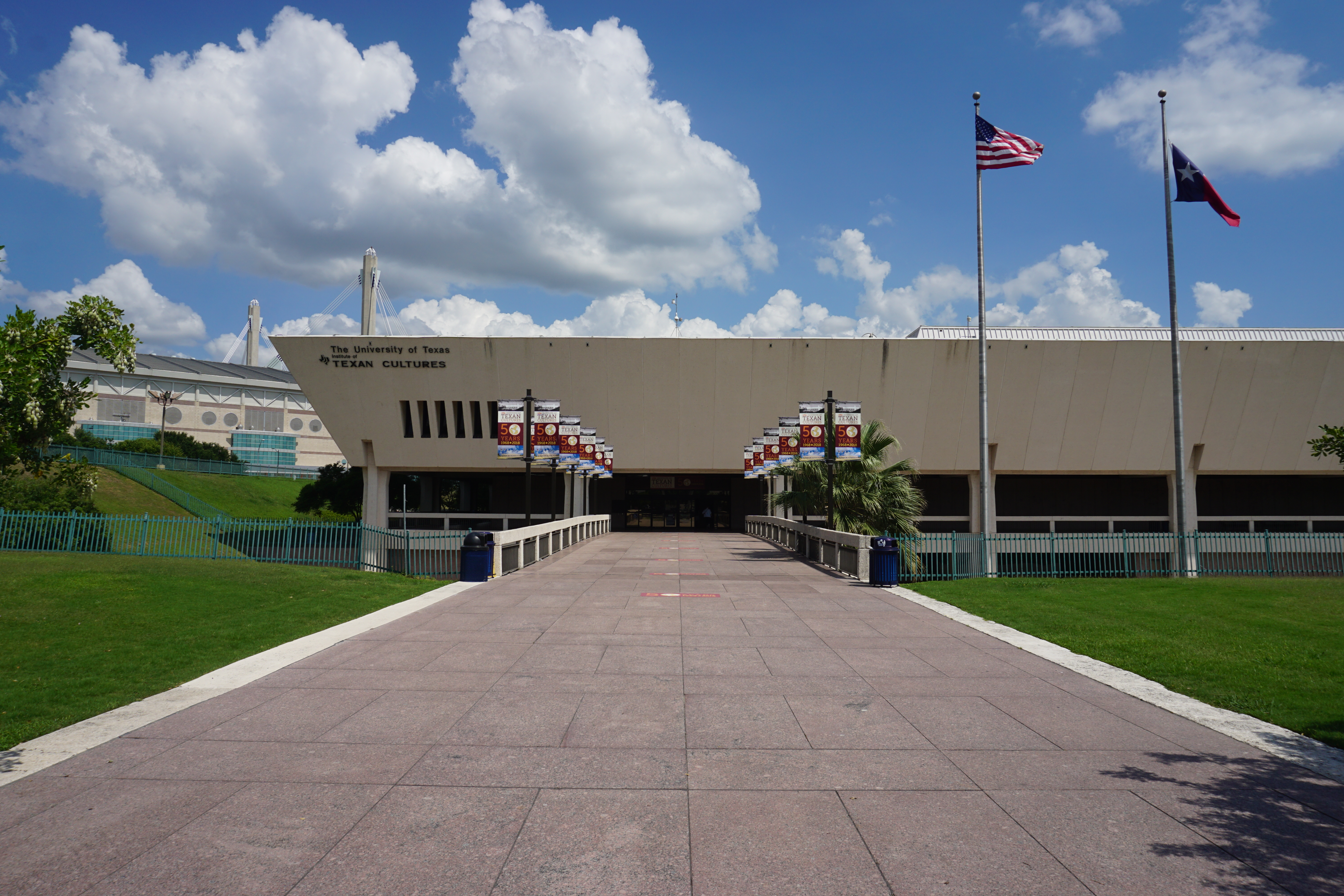 The Institute of Texan Cultures at HemisFair Park in San Antonio, Texas (United States).